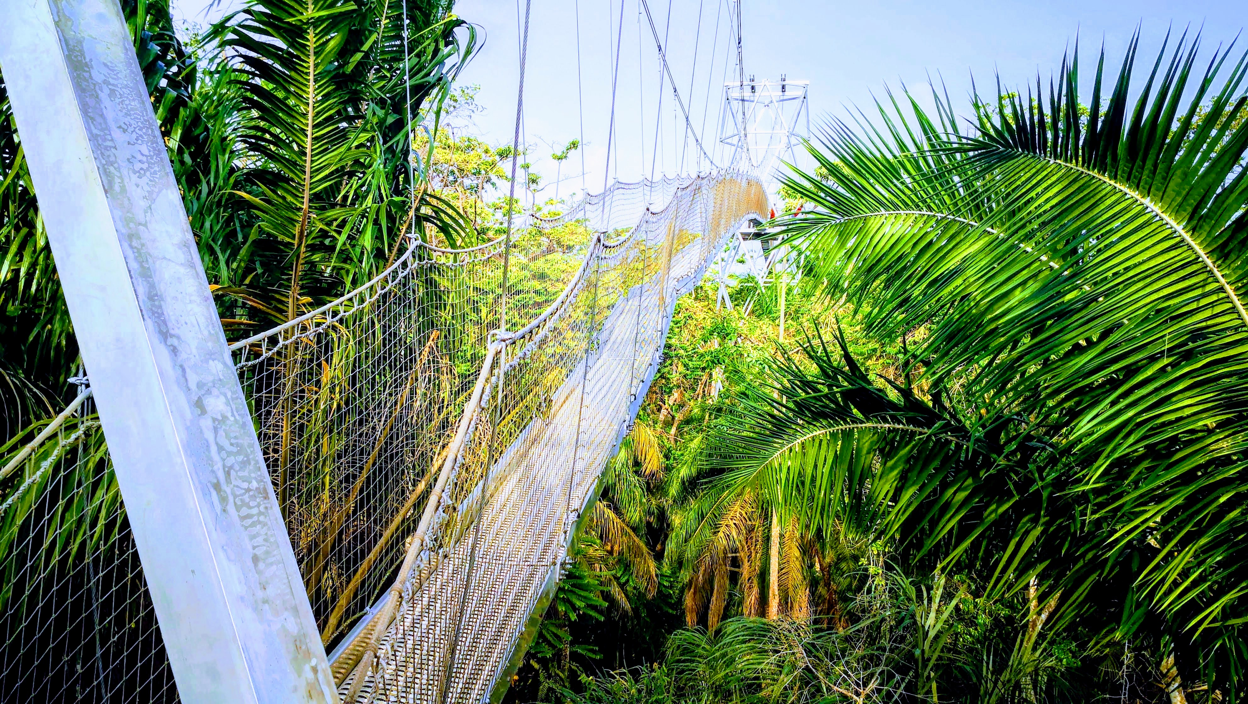 Canopy Walkway Lekki Conservation Center